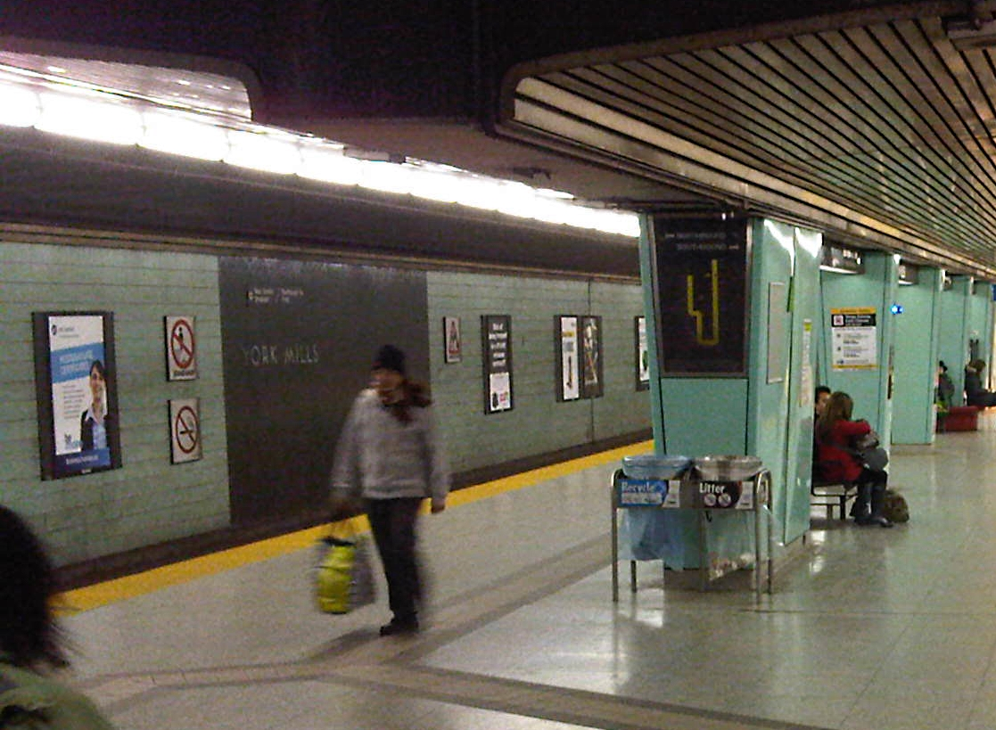 York Mills station wall tiles prior to the 2015 renovation